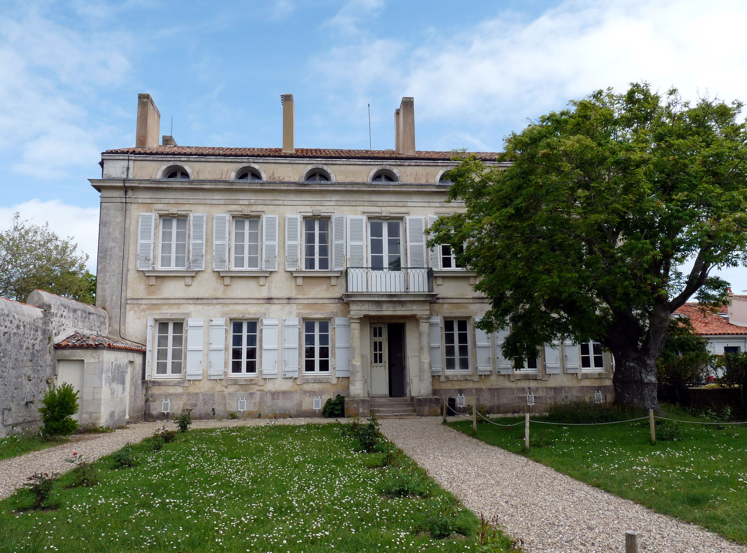 Backside of Musée napoléonien (Ile d'Aix, Charente-Maritime)